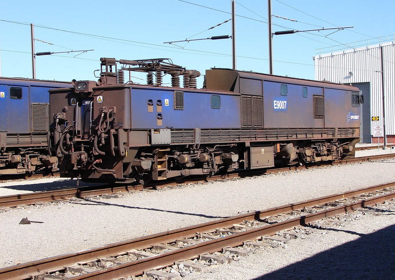 SAR Class 9E Series 1 E9007 Builder's Number: GEC 5552 Location: Saldanha, Western Cape